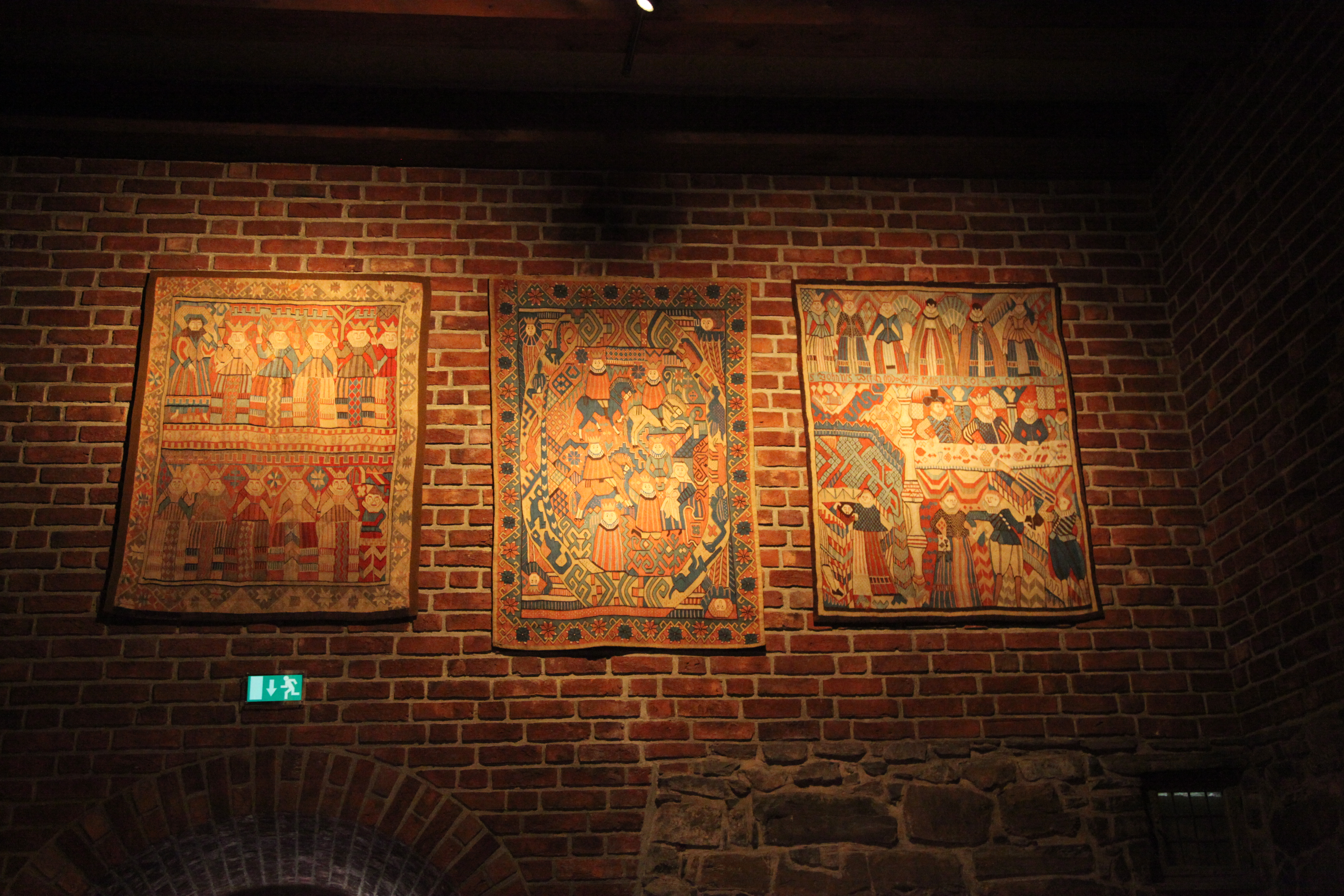 Akershus Castle. Carpets in Vågehals.